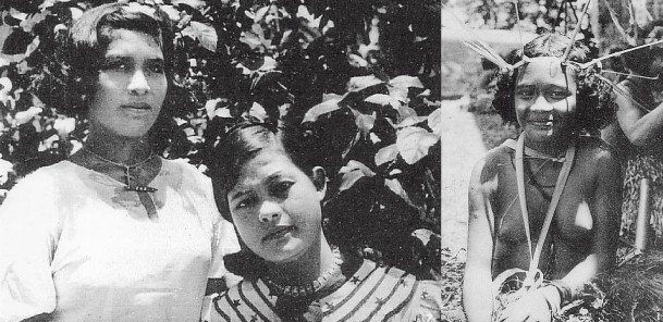 Chamorro and Kanaka girls in 1930s